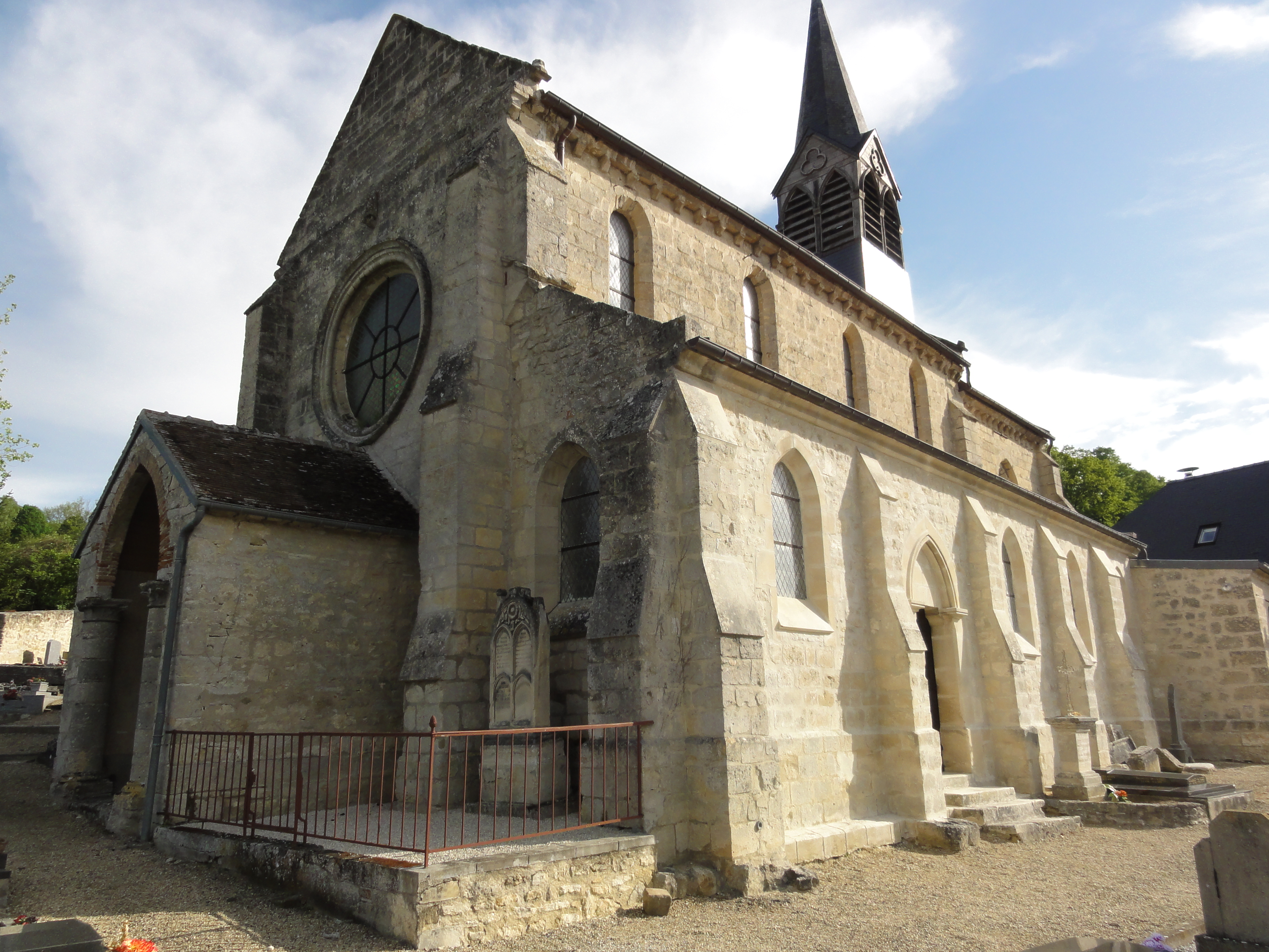 Chérêt (Aisne) église Saint-Nicolas